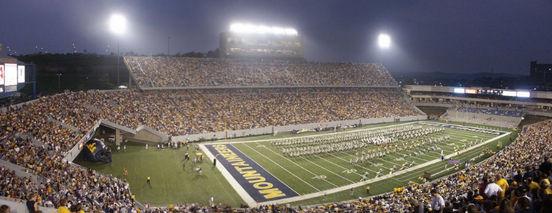 Panorama view inside of Mountaineer Field at Milan Puskar Stadium in Morgantown, WV